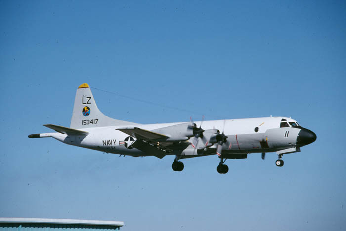 VP-94 (LZ 11) P-3B (BuNo 153417) on approach to NRB Dallas, February 1986. Photographed by Keith Snyder. Repository: San Diego Air and Space Museum Archive